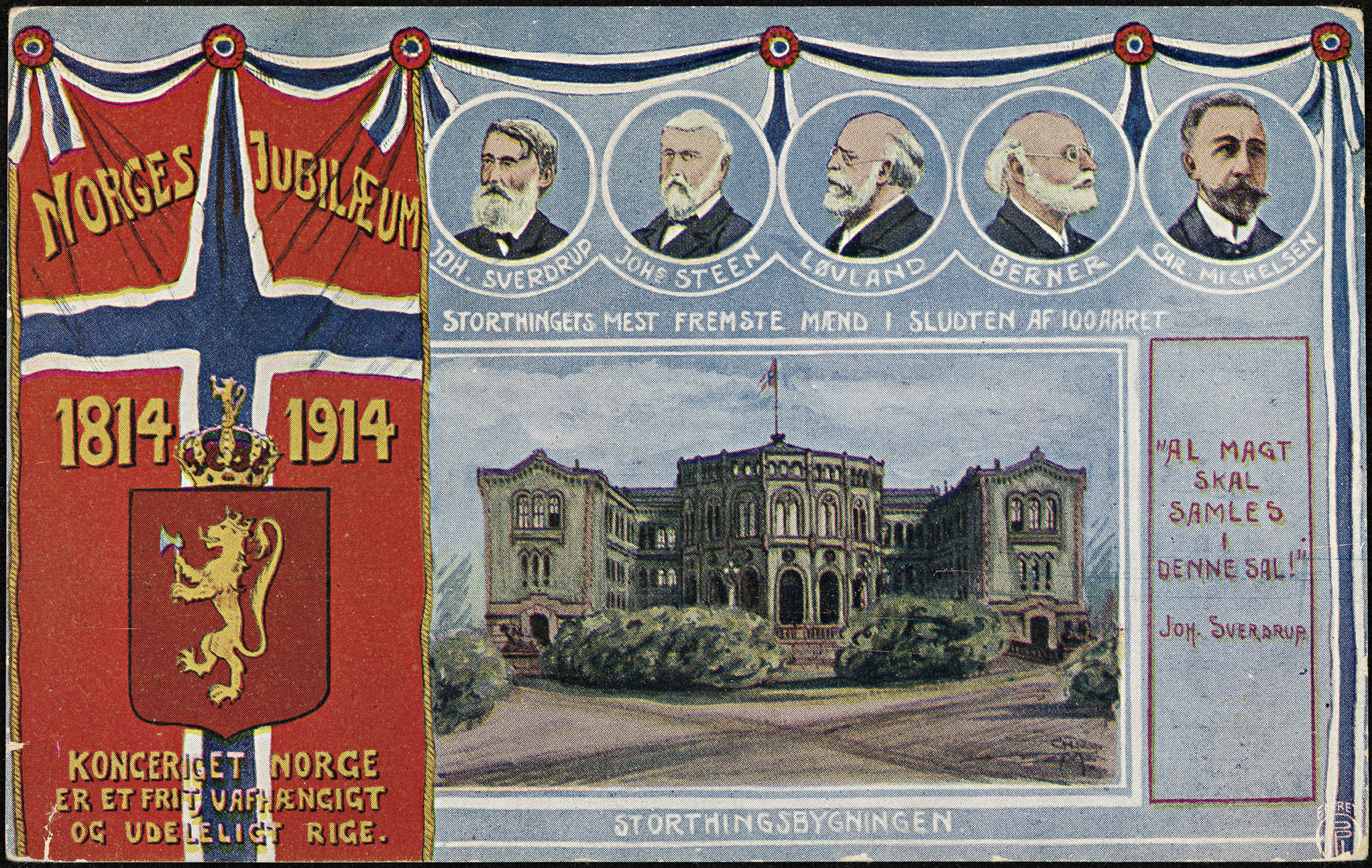 Tittel / Title: Norges Jubilæum 1814-1914 Beskrivelse / Description: Postkort. Kunstner / Artist: Christian Magnus Utgiver / Publisher: Oppi Utgitt / Published: 1914 Sted / Place: Oslo, Stortinget Eier / Owner Institution: Nasjonalbiblioteket / National Library of Norway Lenke / Link: Bildesignatur / Image Number: blds_05710